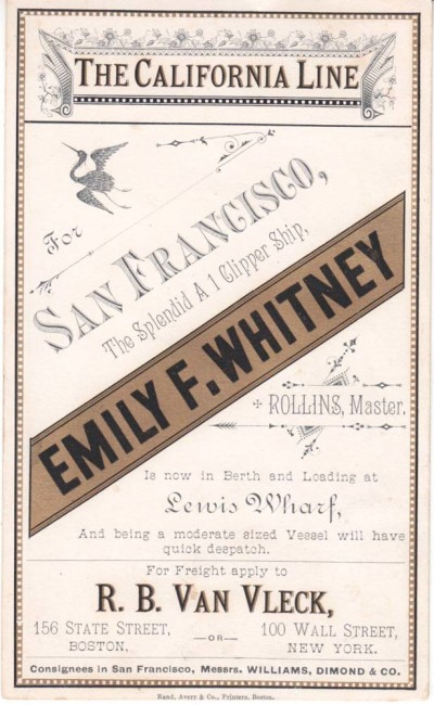 The “Emily F. Whitney” Clipper ship built in East Boston by Abiel Grove in 1880. 1207 net tonnage and 193 feet in length. Card for departing Lewis Wharf in Boston, for San Francisco. Rollins, master. She continued her career in the Pacific until she wrecked in Shanghai in 1898 and sold to the British. Printed by Rand, Avery & Co., Boston.